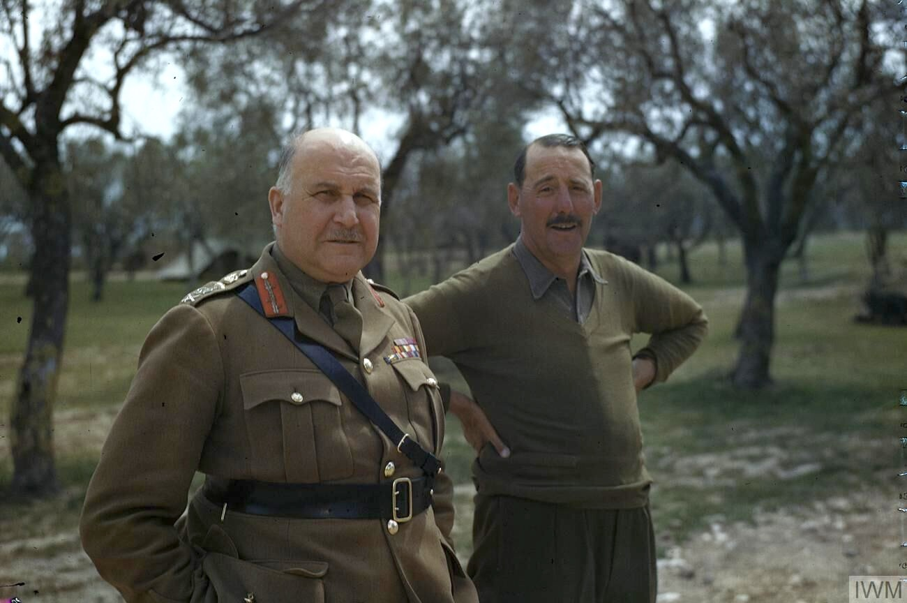 GENERAL SIR HENRY MAITLAND WILSON, THE SUPREME ALLIED COMMANDER, MEDITERRANEAN THEATRE, VISITS THE ITALIAN FRONT, 30 APRIL 1944. General Sir Maitland Wilson, Supreme Allied Commander, Mediterranean Theatre, with Lieutenant General Sir Oliver Leese, Commander of the Eighth Army, during a visit by General Wilson to TAC HQ Eighth Army in the Mignano area, to confer on the battle situation.